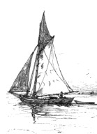 (Removed after reusableart request.)